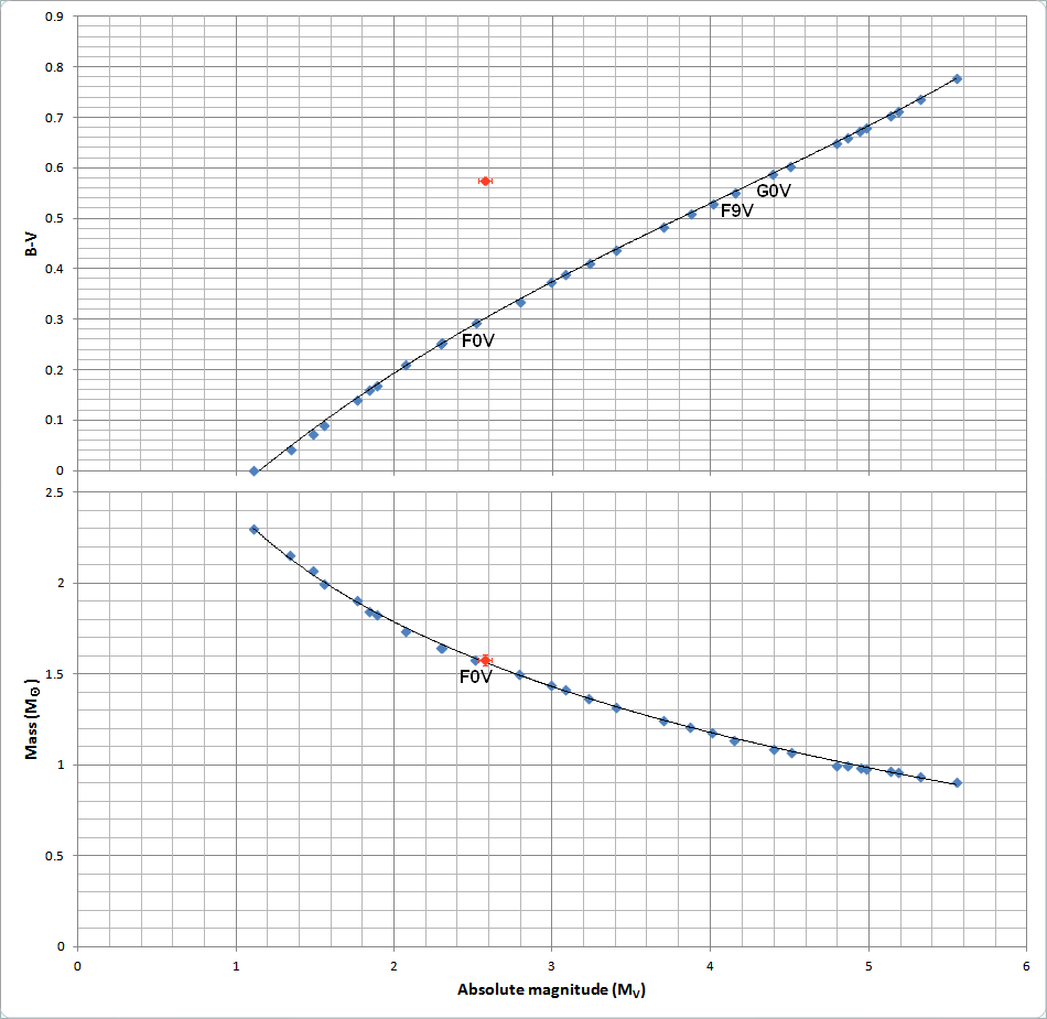 The position of the ultra metal-rich star HD 108063 on plots of (top) B-V - absolute magnitude, and (bottom) mass - absolute magnitude for main sequence stars using data from here. The B-V is too high for the absolute magnitude of a main sequence star and would indicate that the star is a subgiant, but the mass is fully consistent with an F0V star. This illustrates the effect that a high metallicity has on the observed stellar temperature; an increased metallicity decreases temperature of the stellar surface, which increases the observed B-V.